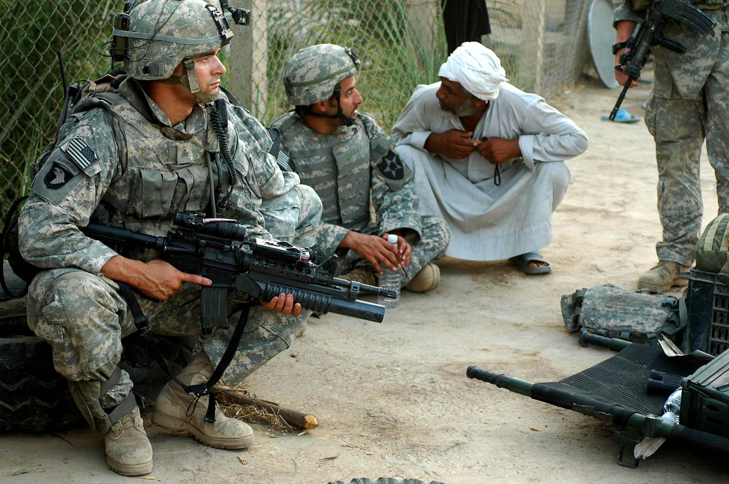 Sgt. Nick Arocho, a team leader with 1st Platoon, Company B, 4-9 Infantry Regiment, pulls security as an Iraqi man speaks to an interpreter, June 19, in a village in the outskirts of Baqubah. Soldiers of 4th Battalion, 9th Infantry Regiment, 4th Stryker Brigade Combat Team are assisting Soldiers of 3rd Stryker Brigade Combat Team in the clearing of Baqubah, a major operation known as "Arrowhead Ripper," by isolating Baqubah just outside the city limits, to prevent insurgents from getting in, or out, of the city. Both Stryker brigades are with the 2nd Infantry Division, from Fort Lewis, Wash.